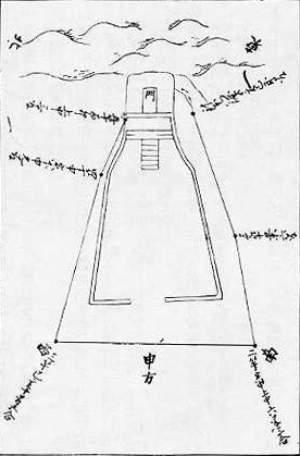 Picture of Unishi-baka